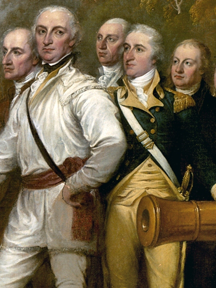 This is a cropped portion of John Trumbull’s portrait of the Surrender of General Burgoyne at Saratoga, which depicts the surrender of the British general to leaders of the Continental Army. Left-to-right are Colonel William Prescott, Colonel Daniel Morgan, General Rufus Putnam, Lieutenant Colonel John Brooks, and Reverend Enos Hitchcock. A full view of the portrait is located here, the portrait is described here, and a key to the portrait is located here. ColWilliam (talk) 18:30, 18 December 2011 (UTC)